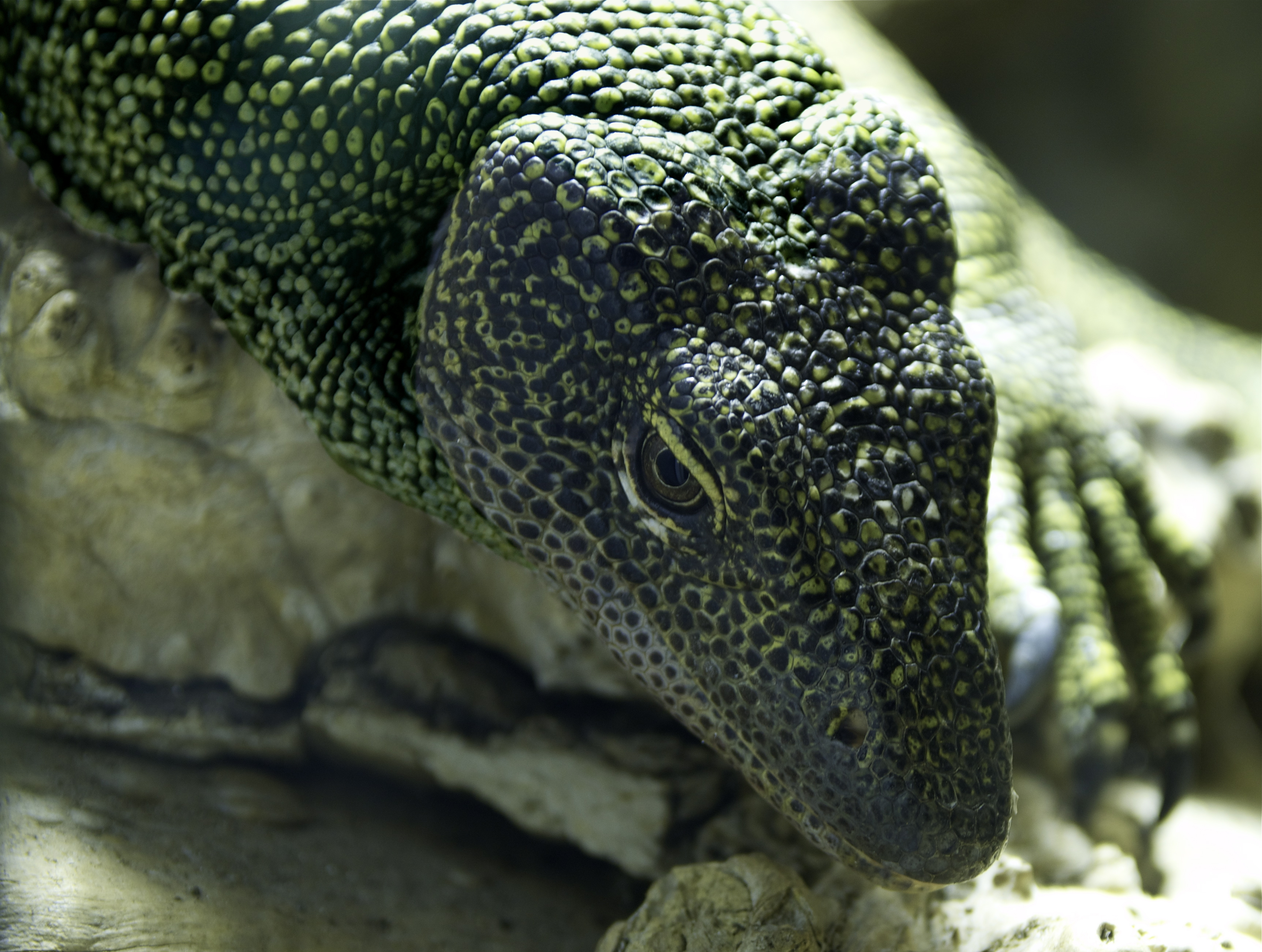 Varanus indicus. Mangrove monitor lizard. Head. Vivarium de la ménagerie du Jardin des Plantes, Paris